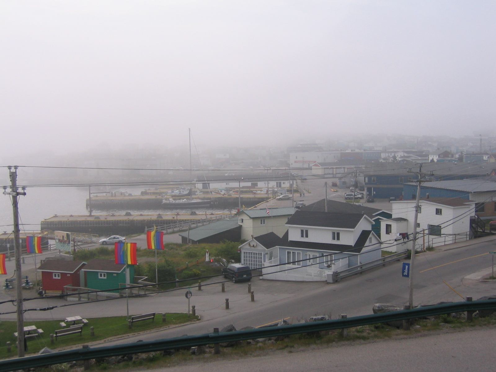 Port aux Basques, Newfoundland